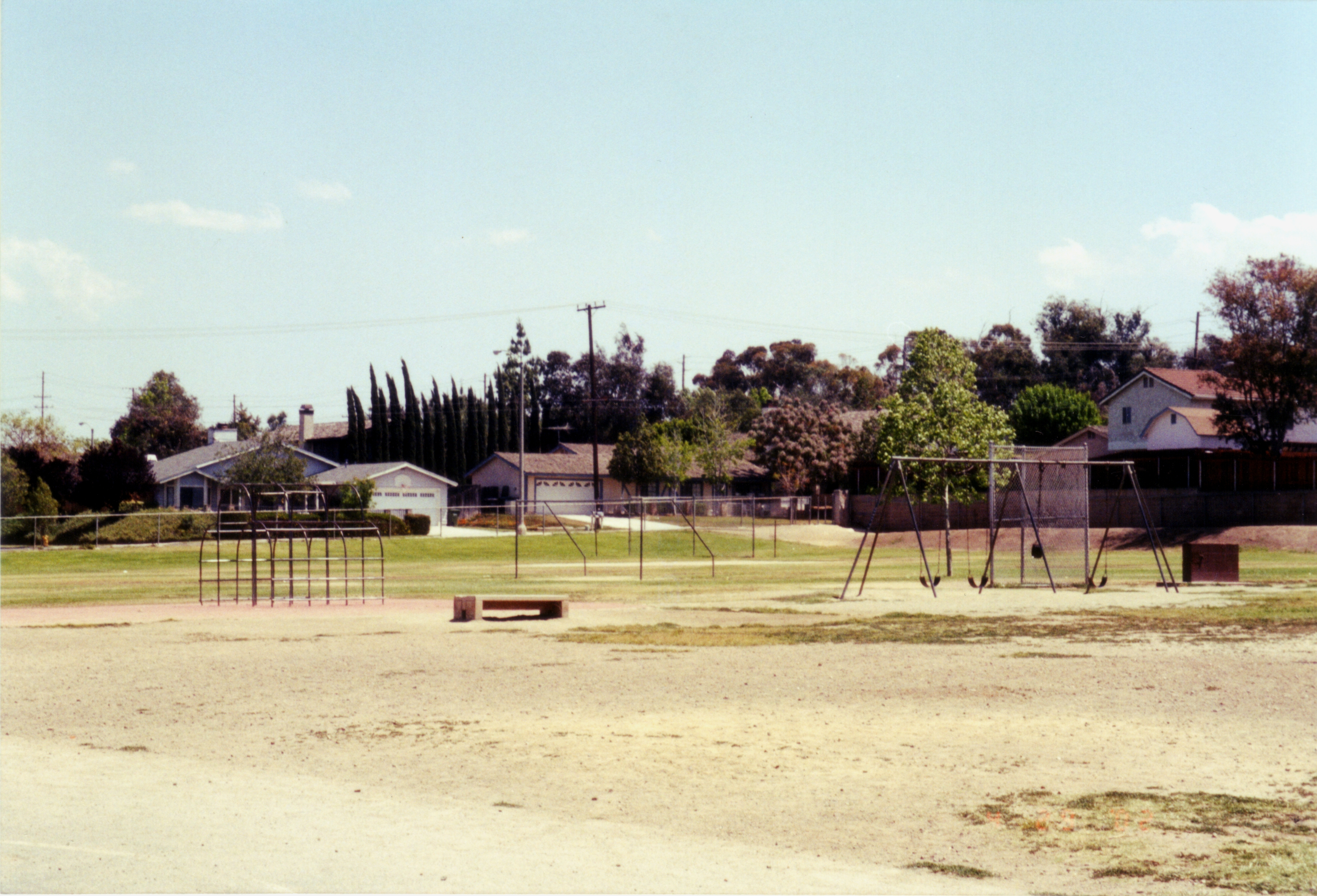 The playground at Vicentia Elementary School in Corona, California.